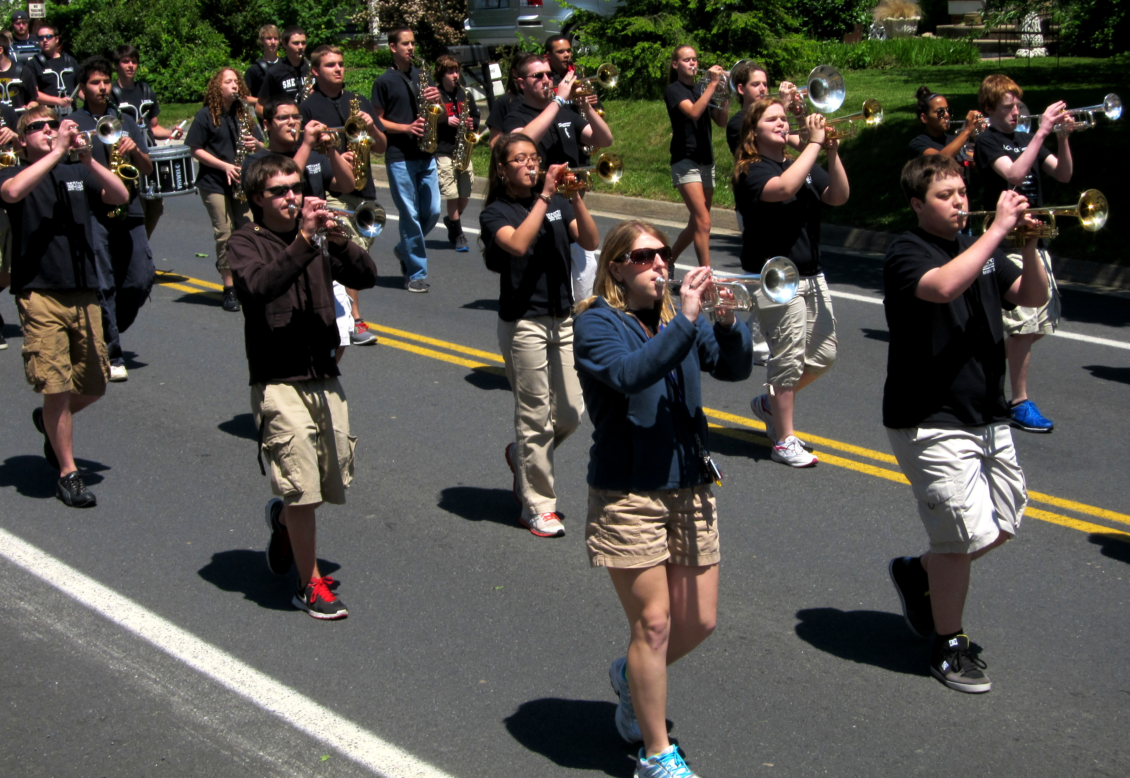 The Sherando High School marching band performing during the Newtown Heritage Festival in Stephens City, Virginia.